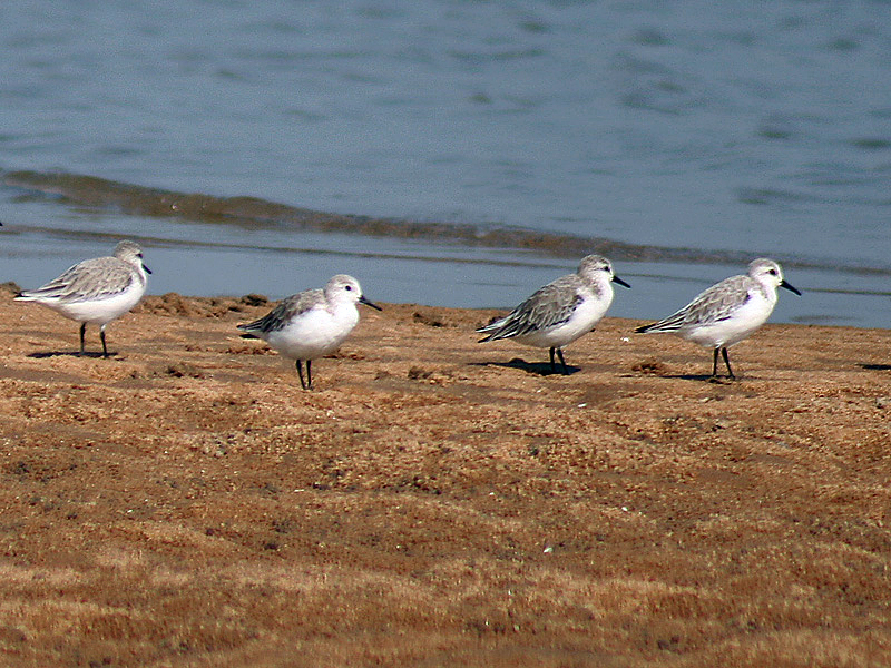 Sanderling Calidris alba in Chilika, Orissa, India.